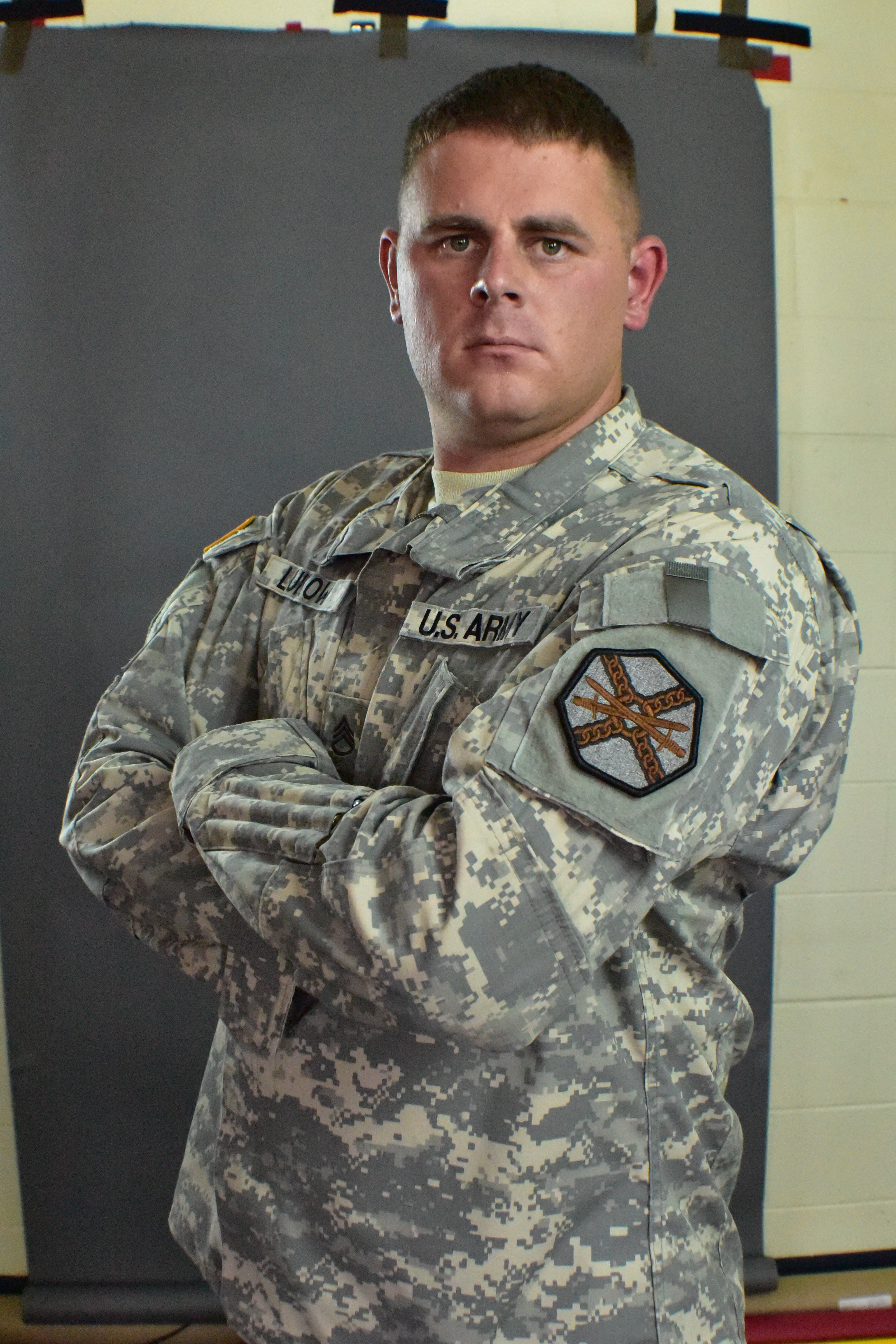 BY CPT NATHANIEL GARCIA, U.S. ARMY WCAP